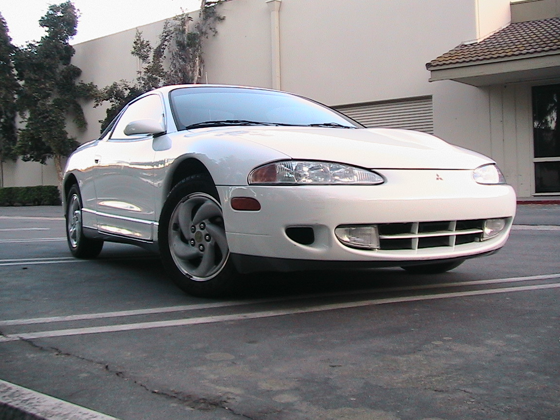 1996 Mitsubishi Eclipse GSX